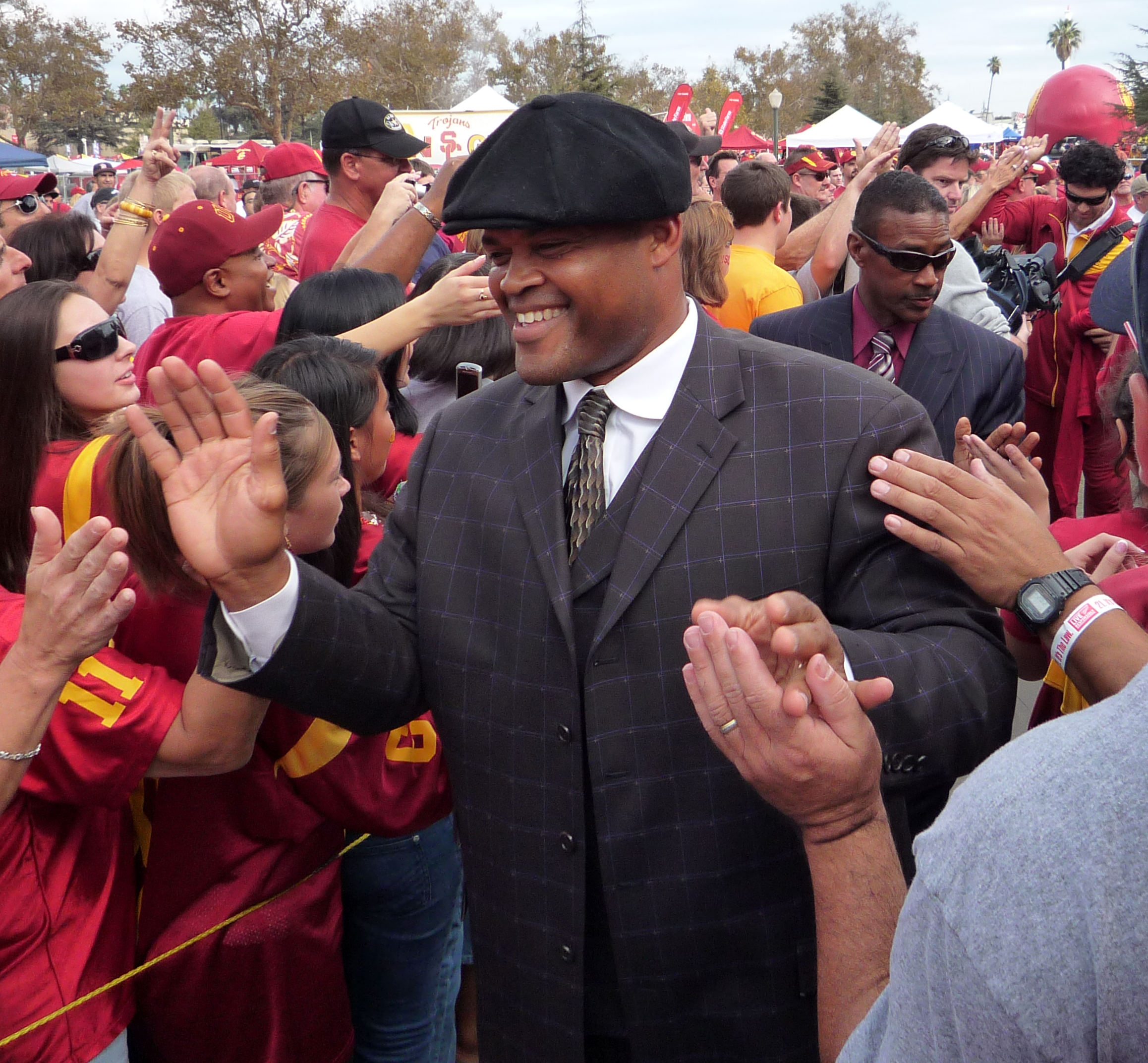 Linebacker coach Ken Norton, Jr. during the "Trojan Walk" preceding a 2008 USC Trojans football season game.